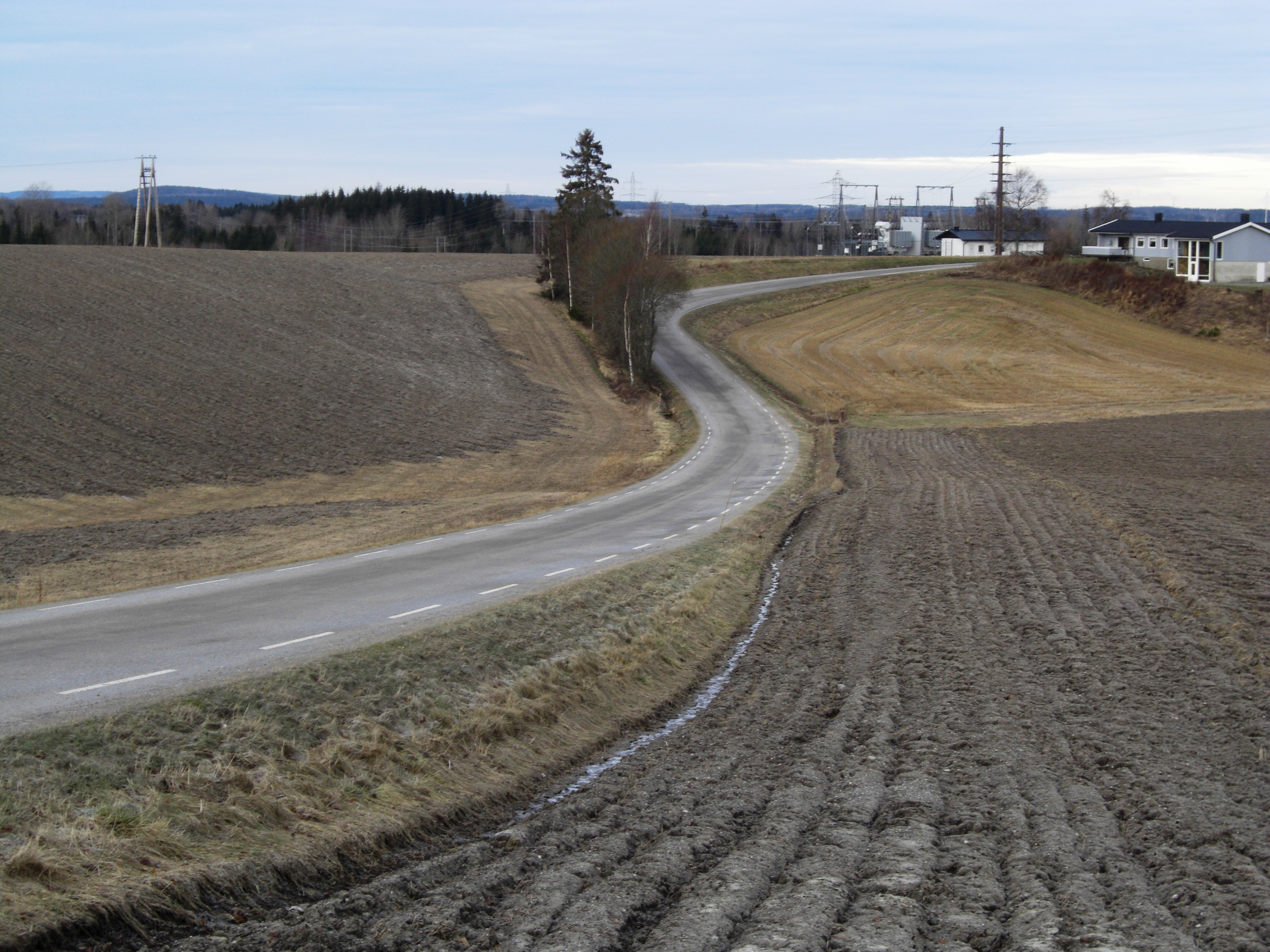 Åsgård road